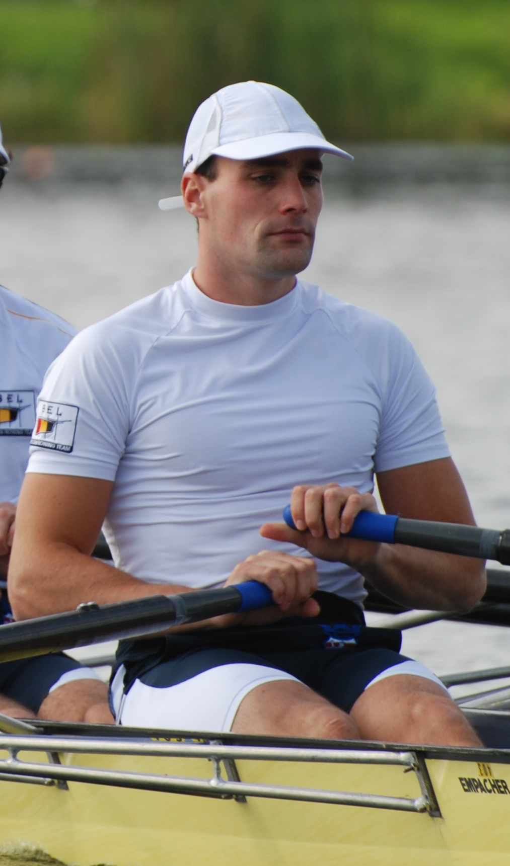 Tim Maeyens during the Belgian Championships 2007 in Hazewinkel.